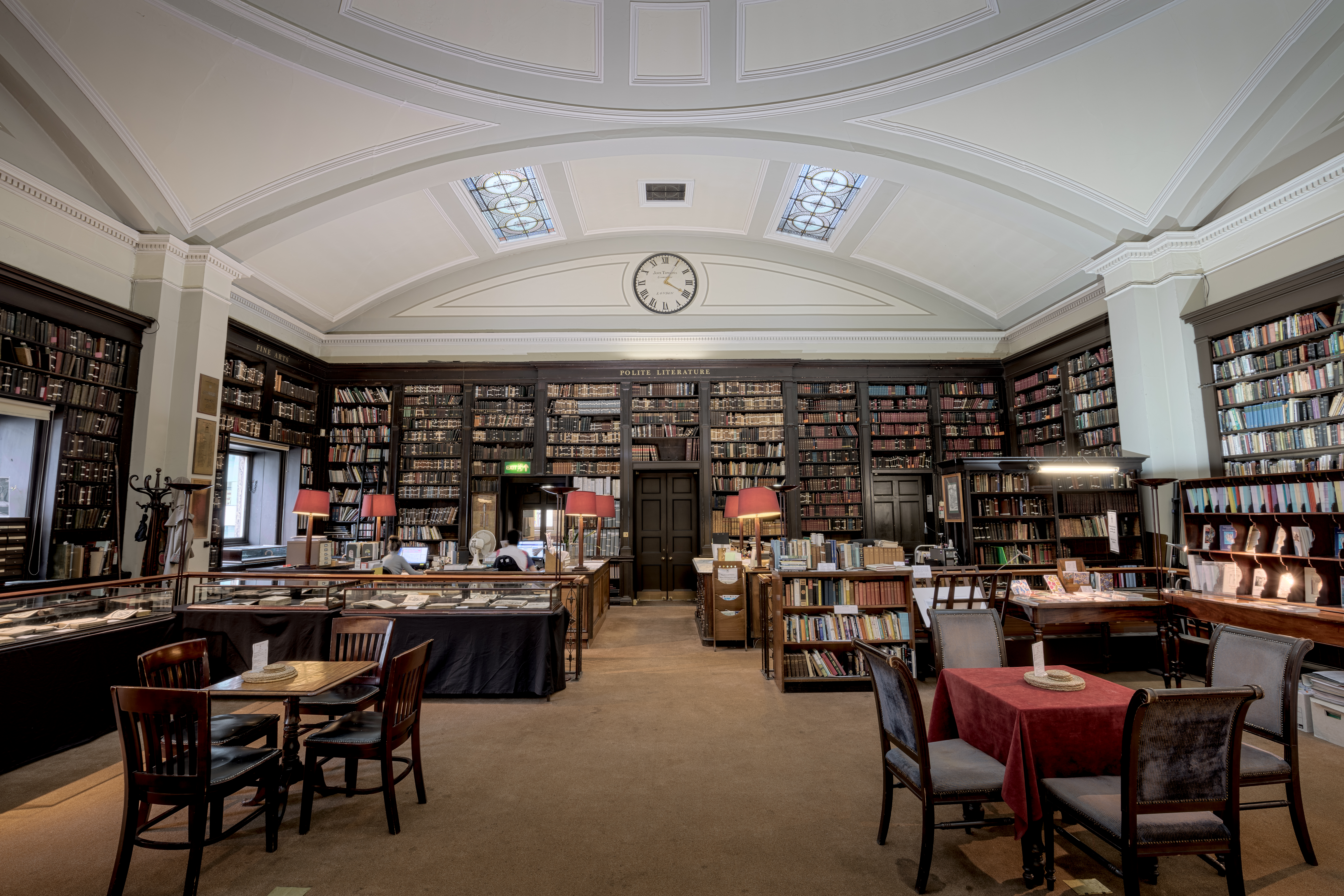 Here is an hdr photograph taken from inside The Portico Library. This is a famous private library located in the middle of the city centre. Located in Manchester, Greater Manchester, England, UK. (taken with kind permission of the administration) Here is a link to download the free 16bit TIFF version (8685x5790)